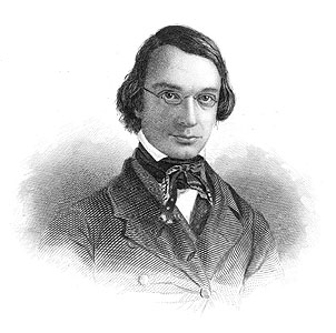 Alfred Billings Street (1811-1881). American author, and director of the New York State Library, 1848 - 1861.